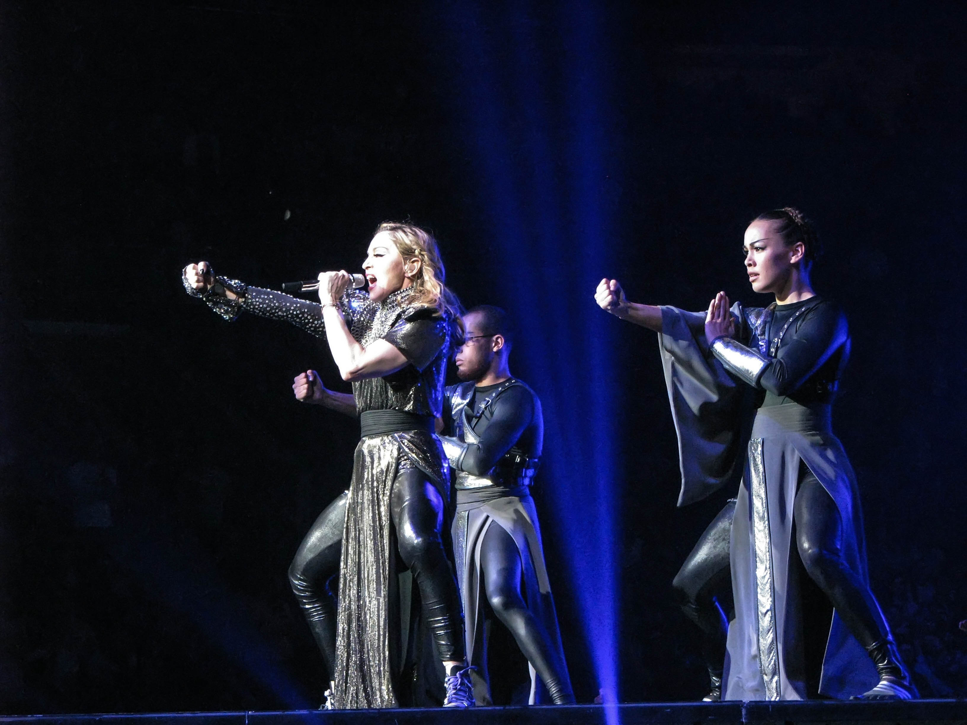 Madonna concert in Seattle